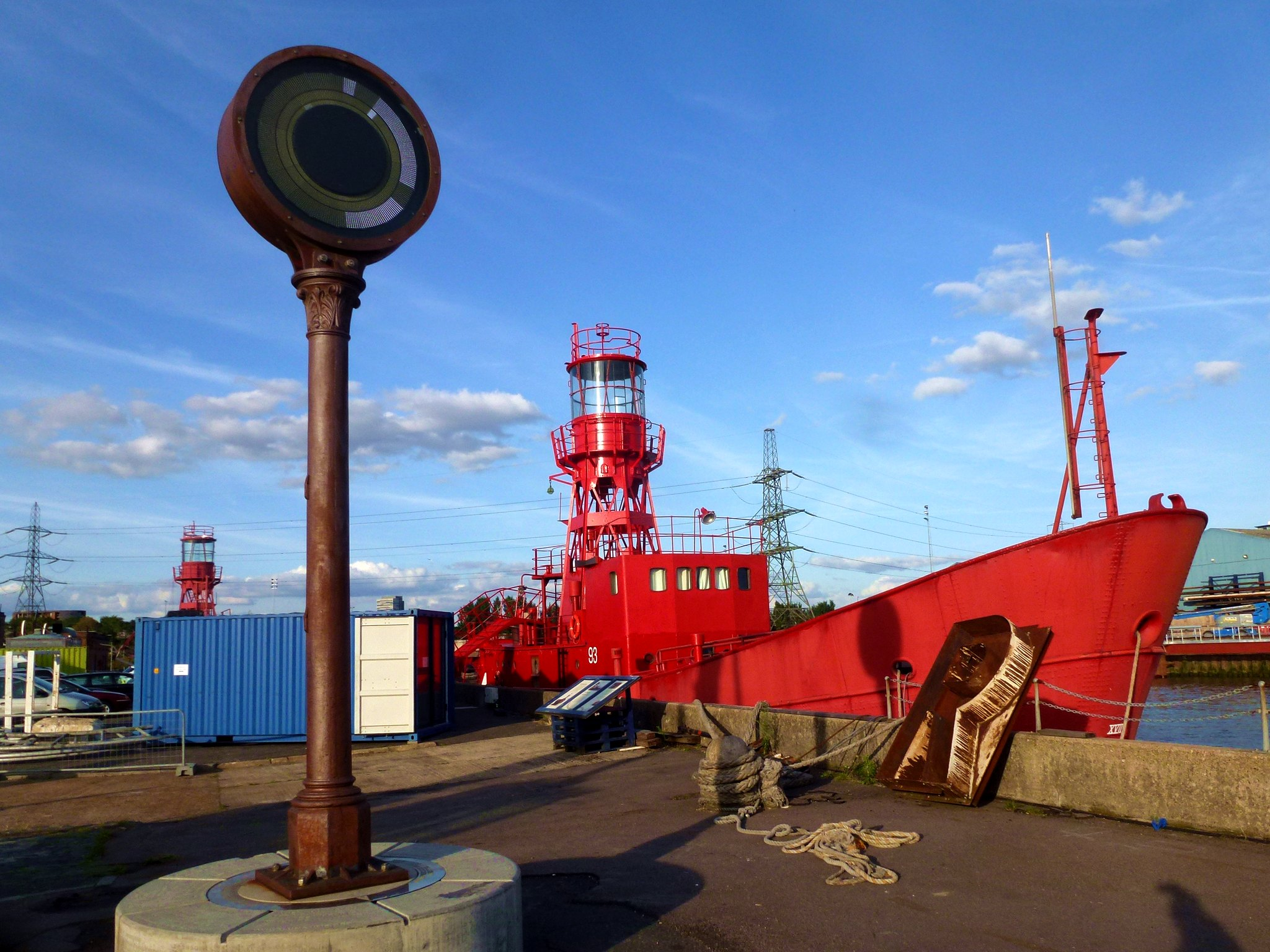 Tidal-powered lunar clock Alunatime and lightship LV93 at Trinity Buoy Wharf, London in September 2012.